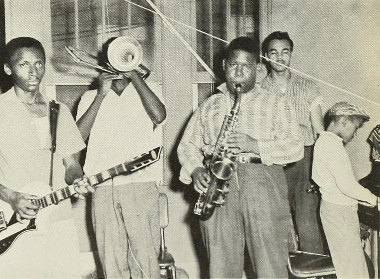 New Orleans, late 1950s. Live music at Tulane University. Original caption: "The basis for the blast". Unidentified band with Earl Turbington on alto sax; young pianist is likely his brother later known professionally as "Willie Tee".